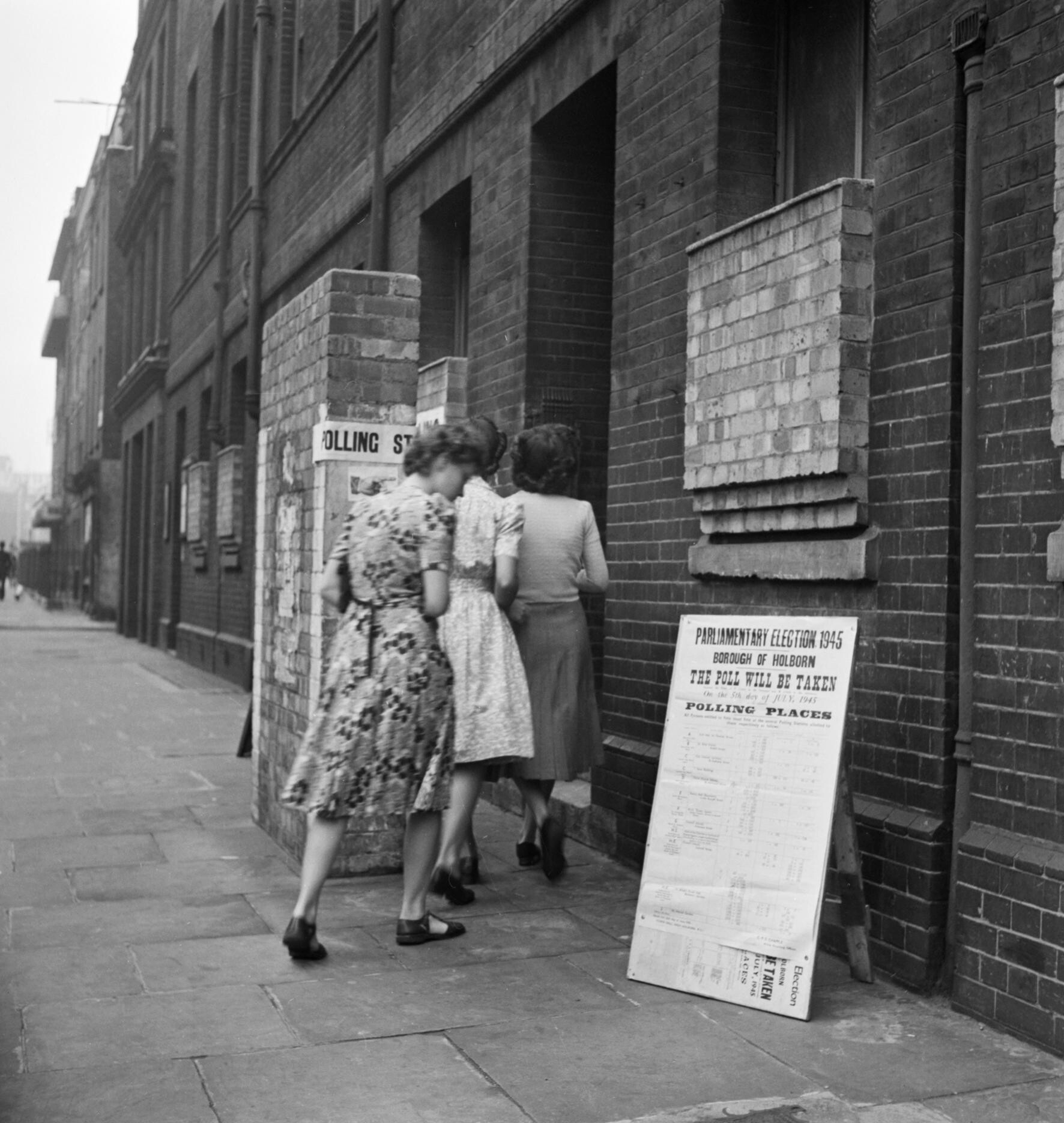 Voters arriving at a polling station in the Italian Hospital, Queen Square, Holborn, London to cast their vote in the General Election of 1945. Three young women arrive bright and early at the polling station to cast their vote in the General Election on their way to work. According to the original caption,the polling stations open at 7am and stay open until late in the evening. This polling station is in the Italian Hospital on Queen Square in Holborn.